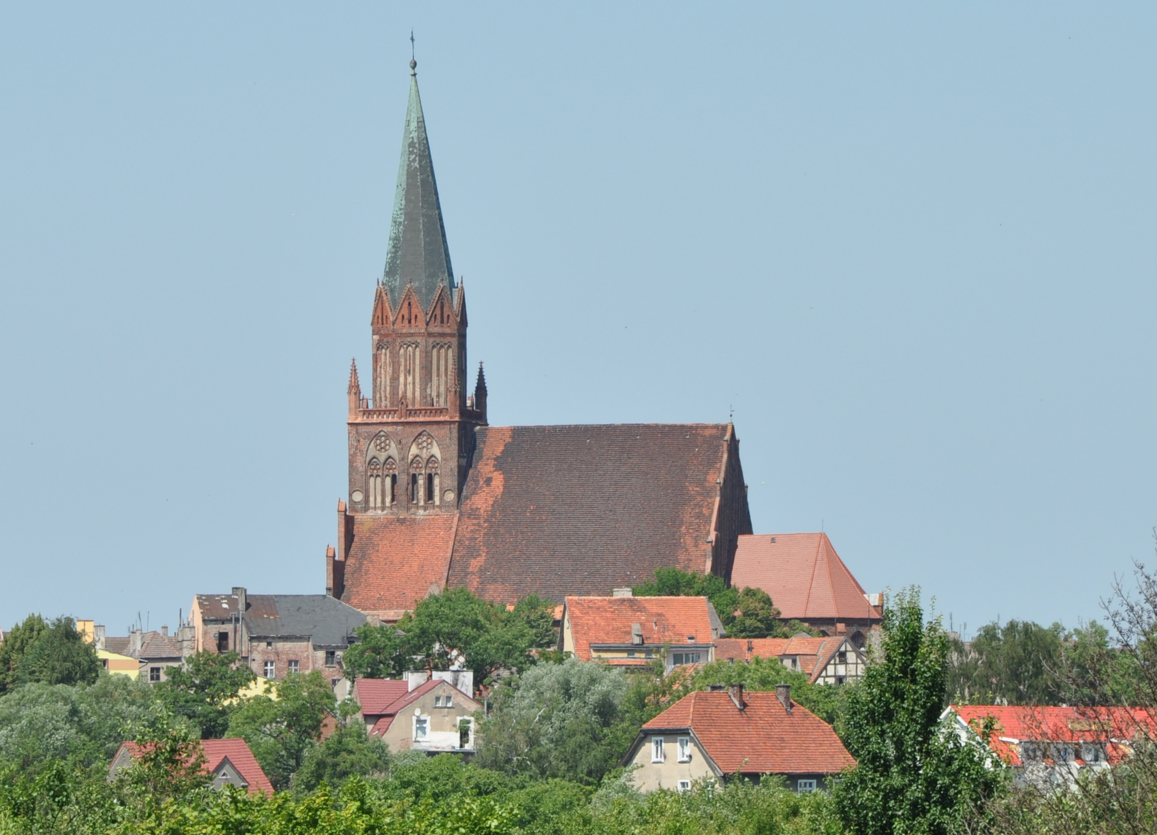 St. Mary's Maternity Roman Catholic Church in Trzebiatów, Poland